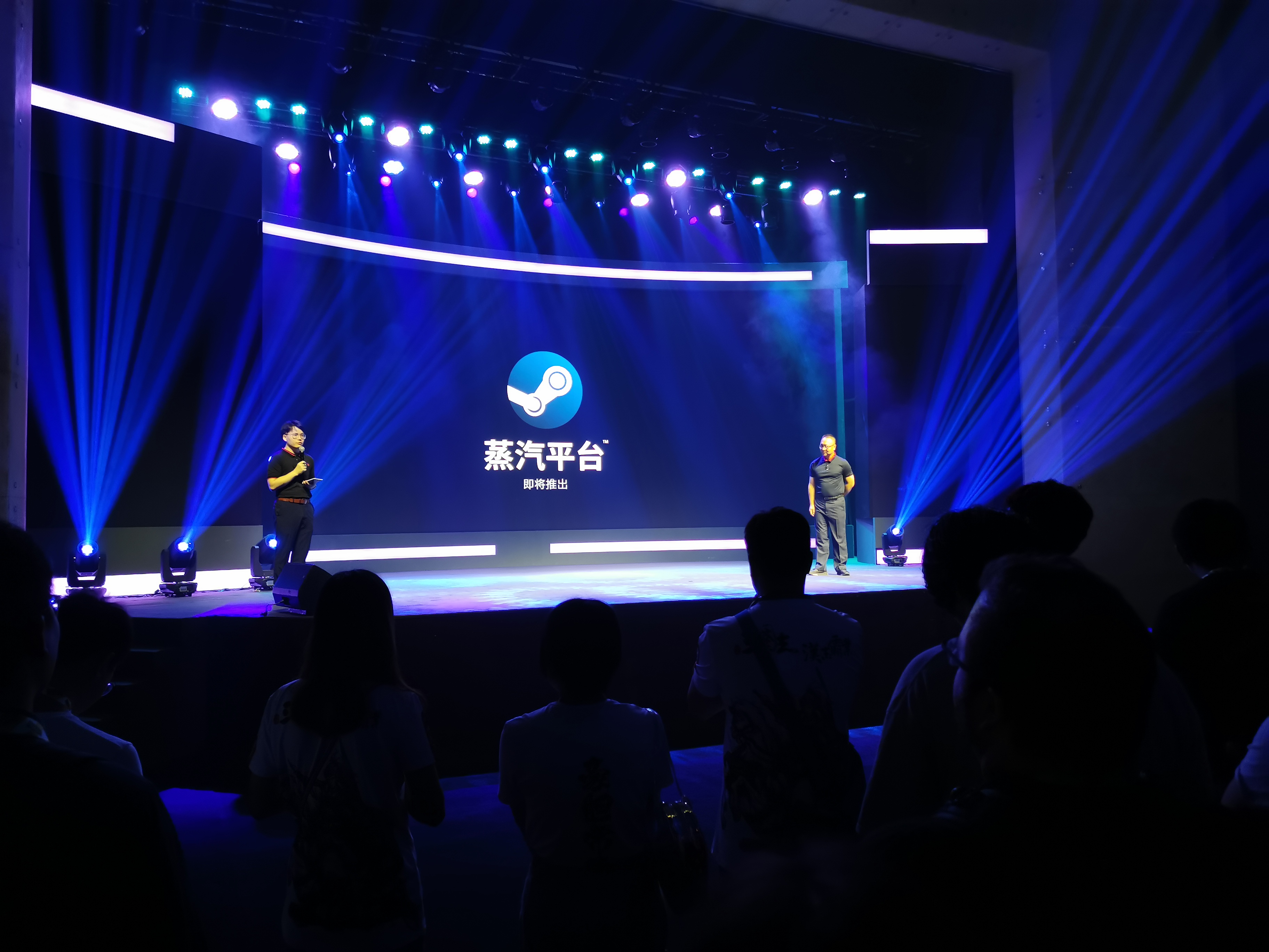 Steam China Release Key Note Speech